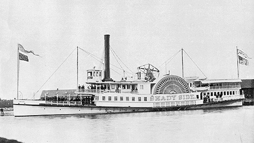 Black and white photograph of the steamboat "Shady Side", from the 1892 work "Picturesque Stamford, A Souvenir" published by the Gillespie Brothers.